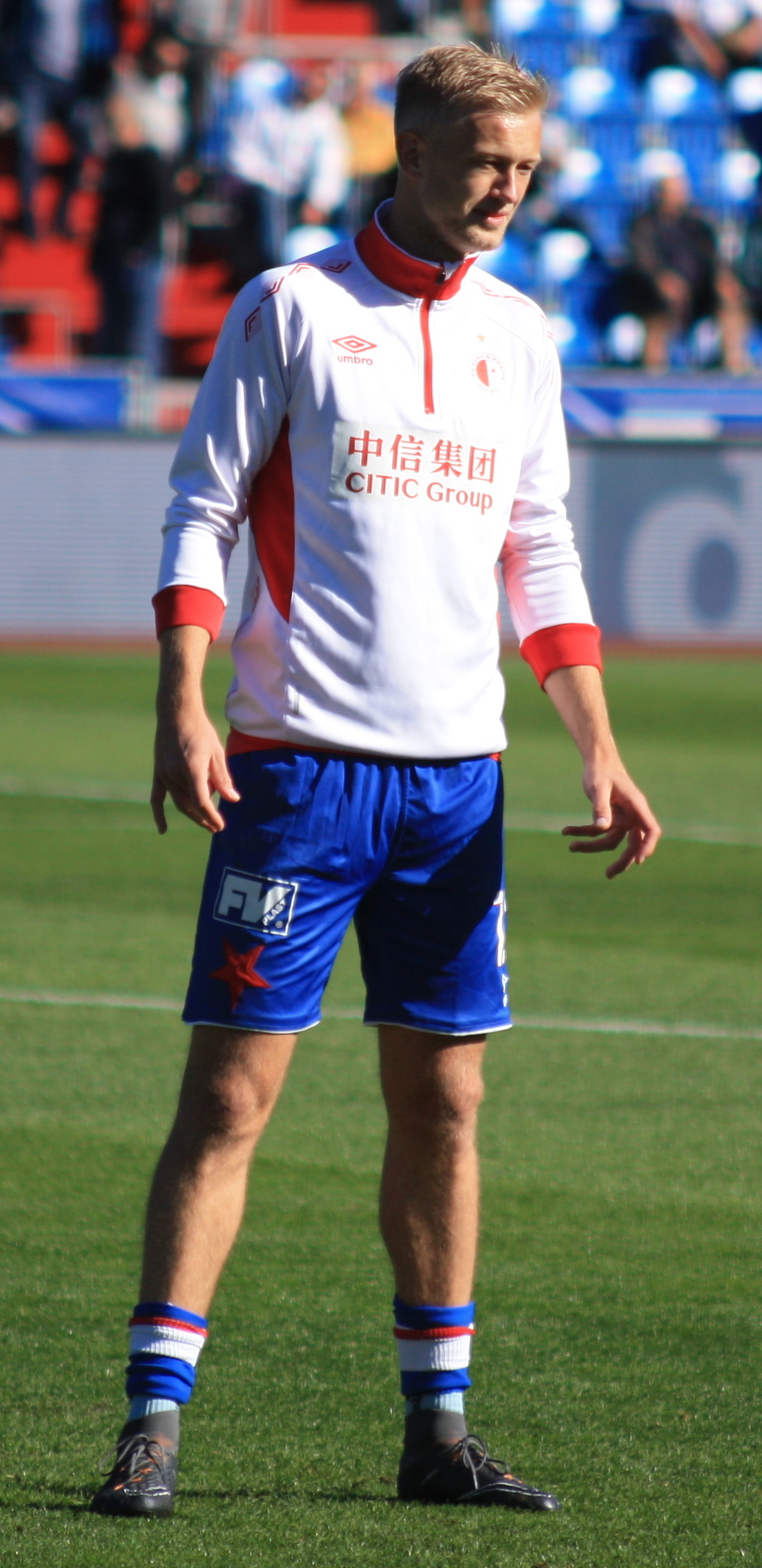 Jaroslav Zelený At Czech First League (Fortuna Liga) match FC Baník Ostrava-SK Slavia Praha played on 30. 9. 2018